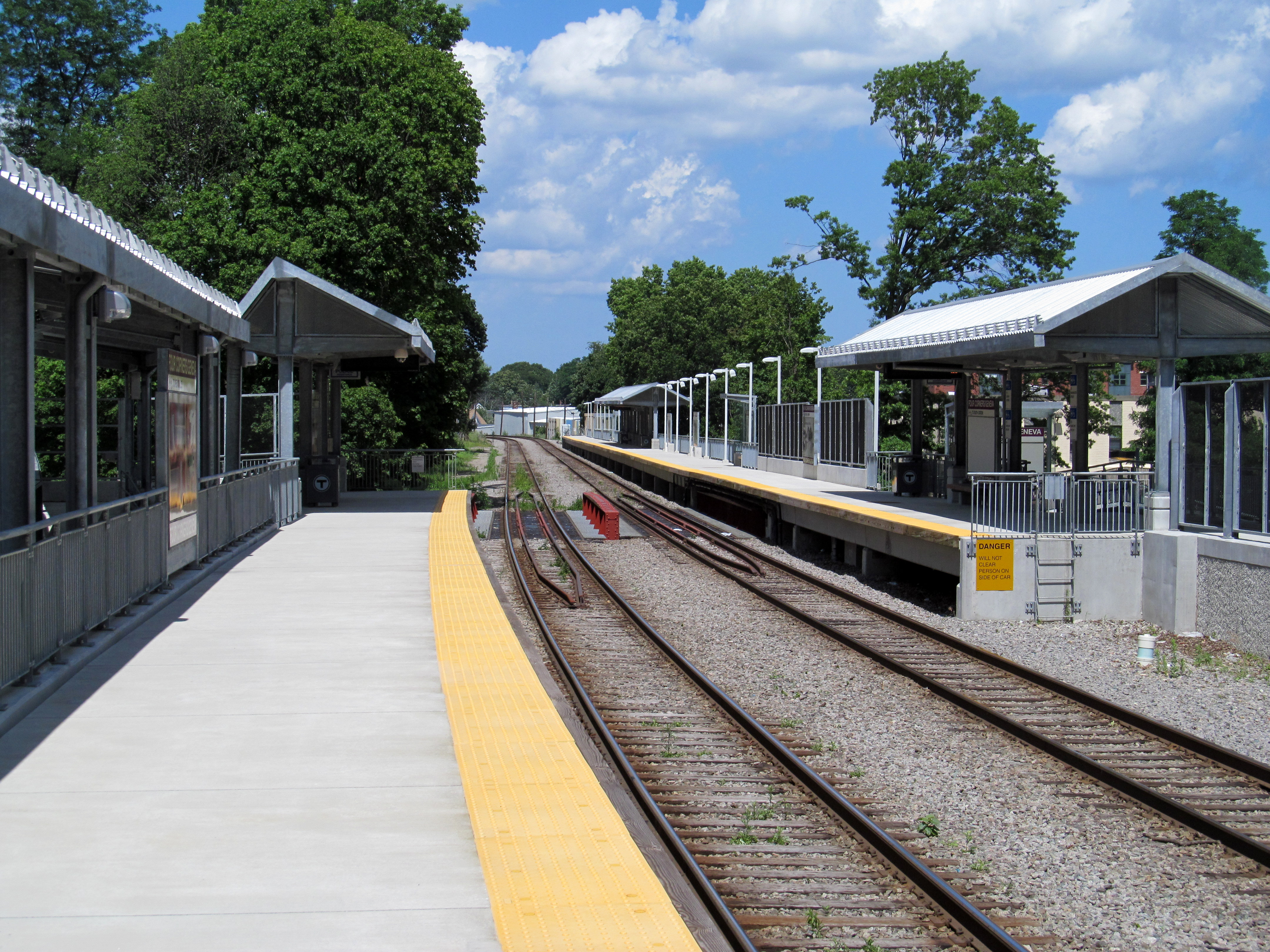 Looking inbound at the newly-opened Four Corners/Geneva Ave station in July 2013